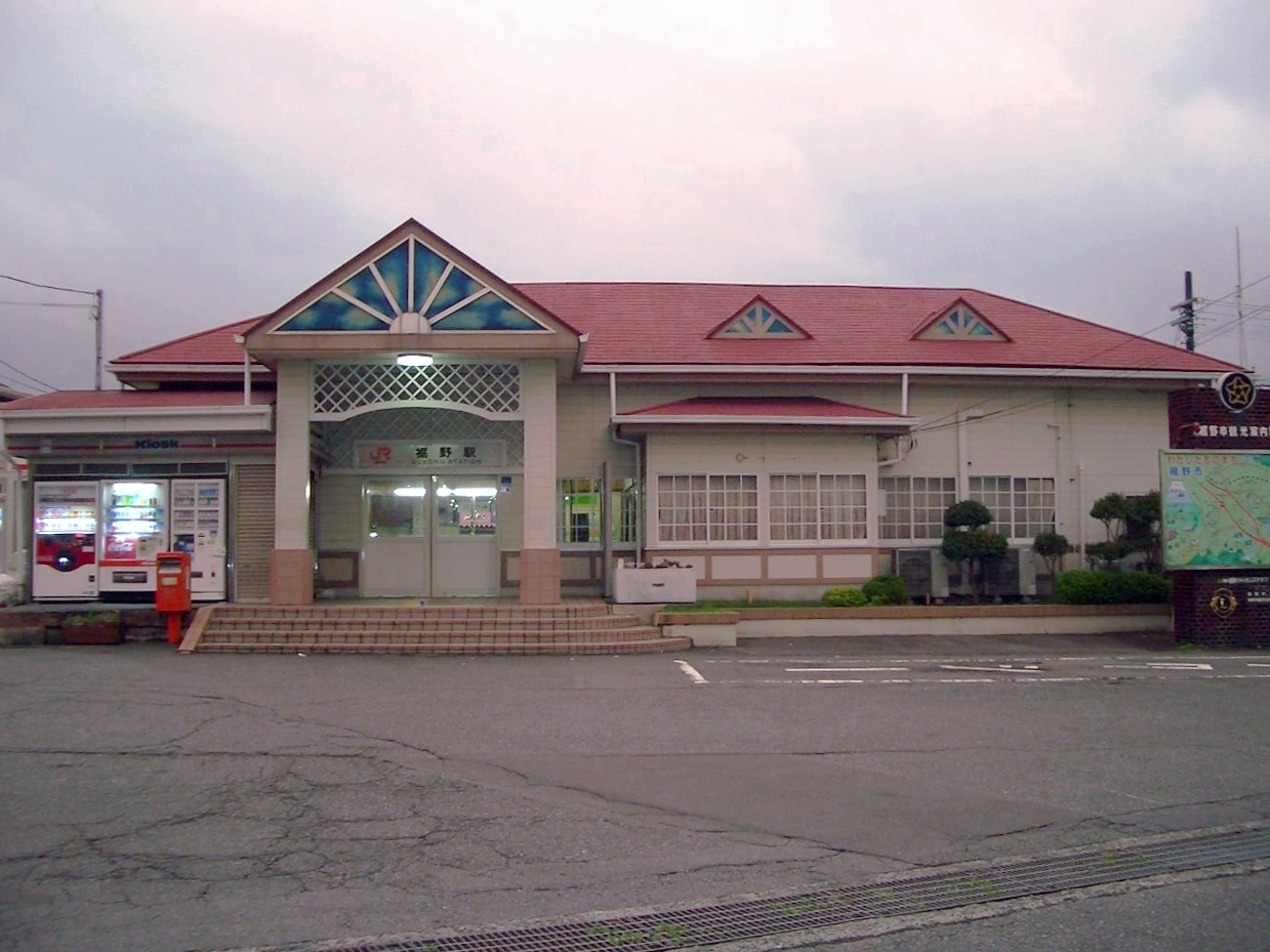 Susono Station in Susono, Shizuoka pref., Japan.